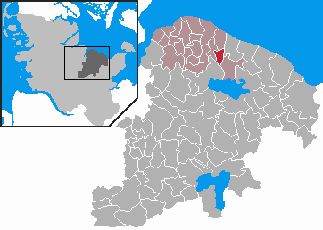 This map shows the area of the Gemeinde (municipality) Bendfeld in the Kreis (district) Plön, Schleswig-Holstein, Germany.